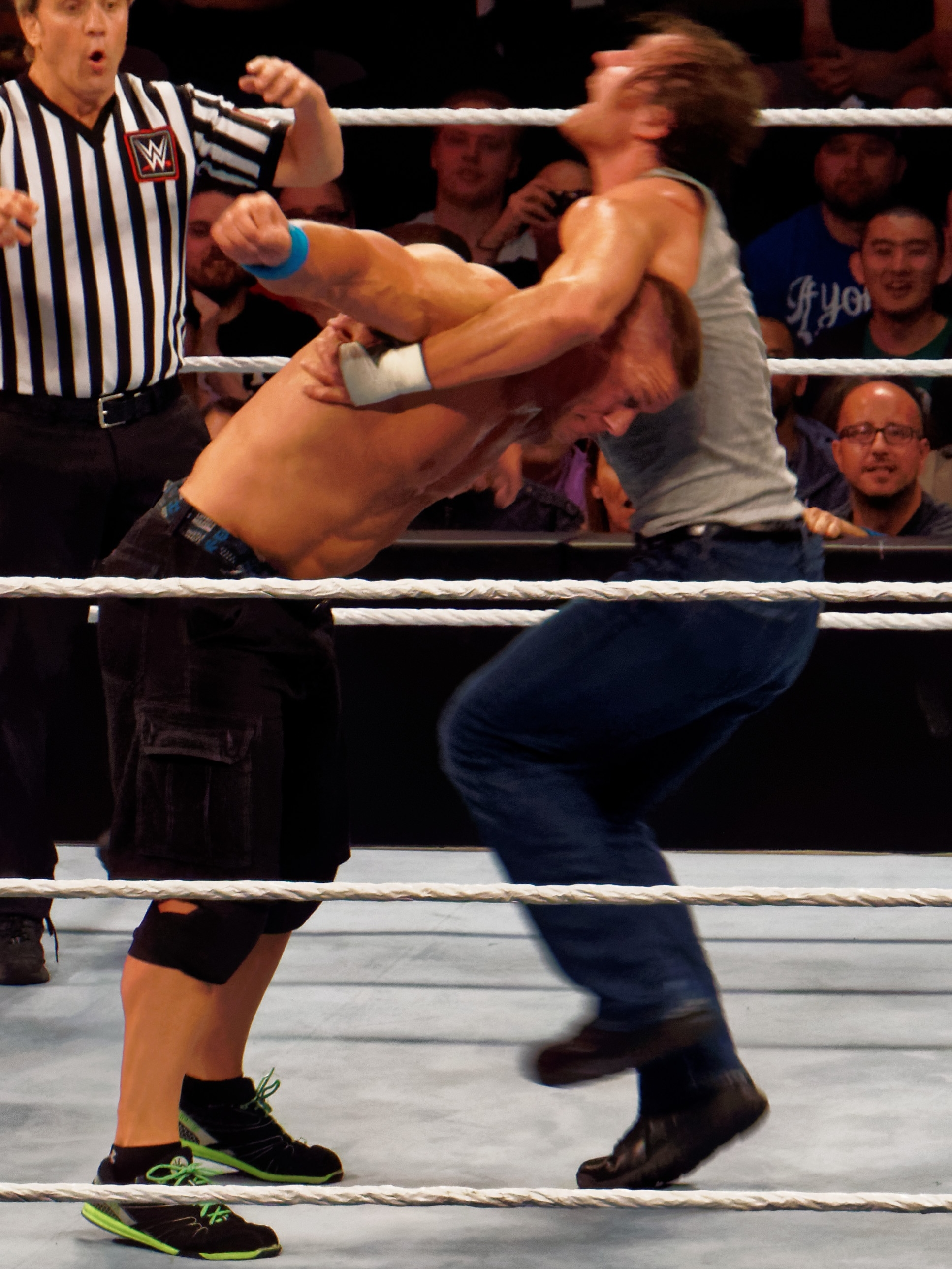 The raw everyboding is waiting for ... The One after Wrestlemania